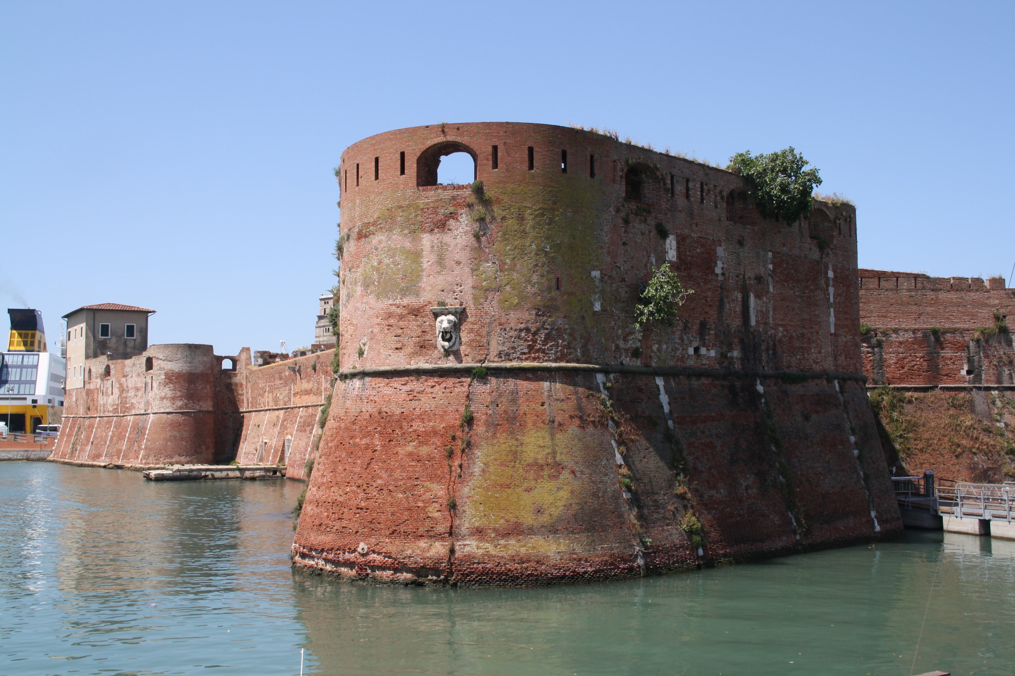 Italy, Livorno, Fortezza Vecchia. The Ampolletta bastion and in background the Canaviglia bastion with the Francesco I de’ Medici palace.